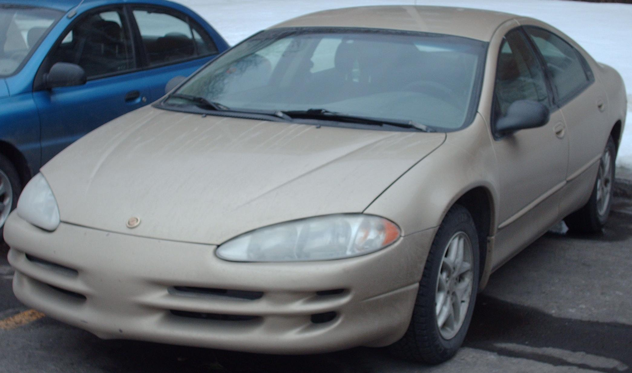 2002-2004 Chrysler Intrepid photographed in Montreal, Quebec, Canada.